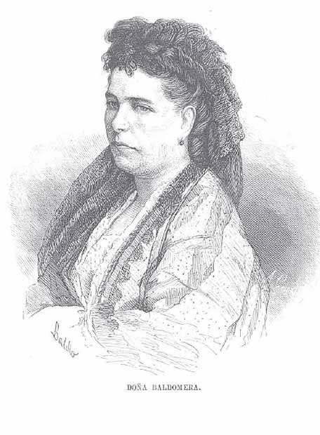 Baldomera Larra Wetoret